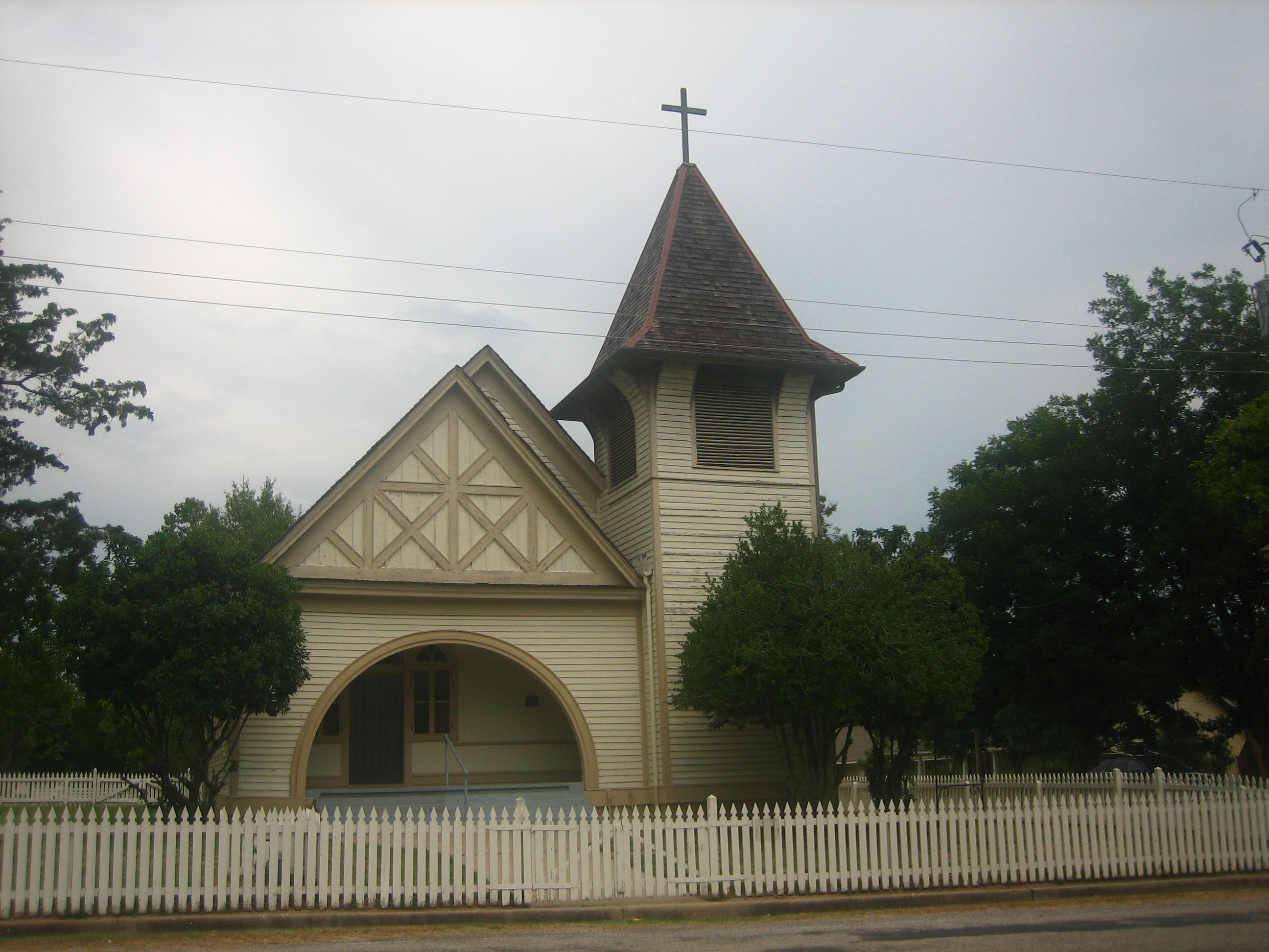 I took photo on Aug. 7, 2008.Billy Hathorn (talk) 23:33, 10 September 2008 (UTC)